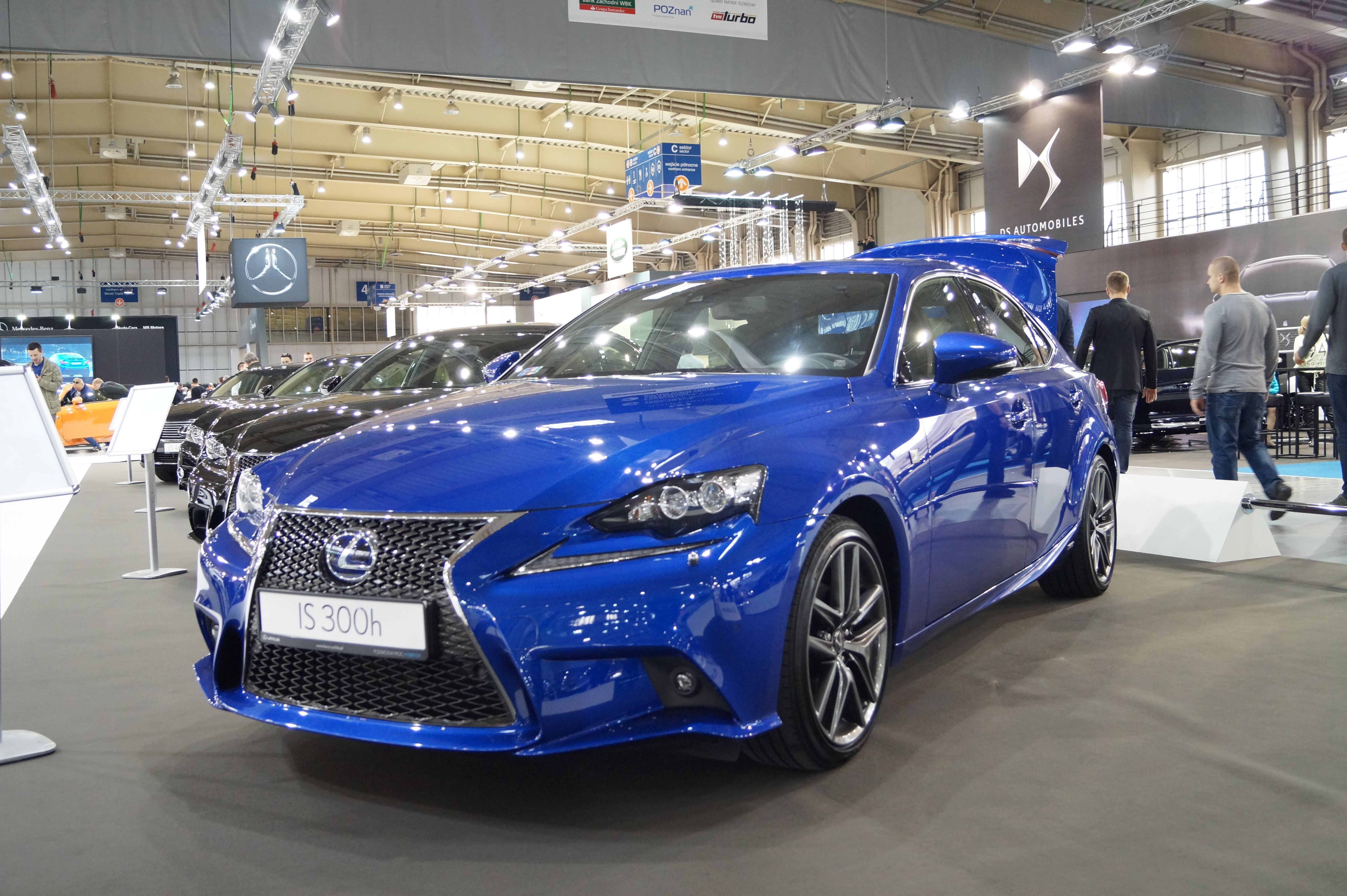 The making of this document was supported by Wikimedia Polska Association, within Wikigrant no. WG 2015-19. English | polski | +/− Lexus IS 300h na Motor Show Poznań 2015